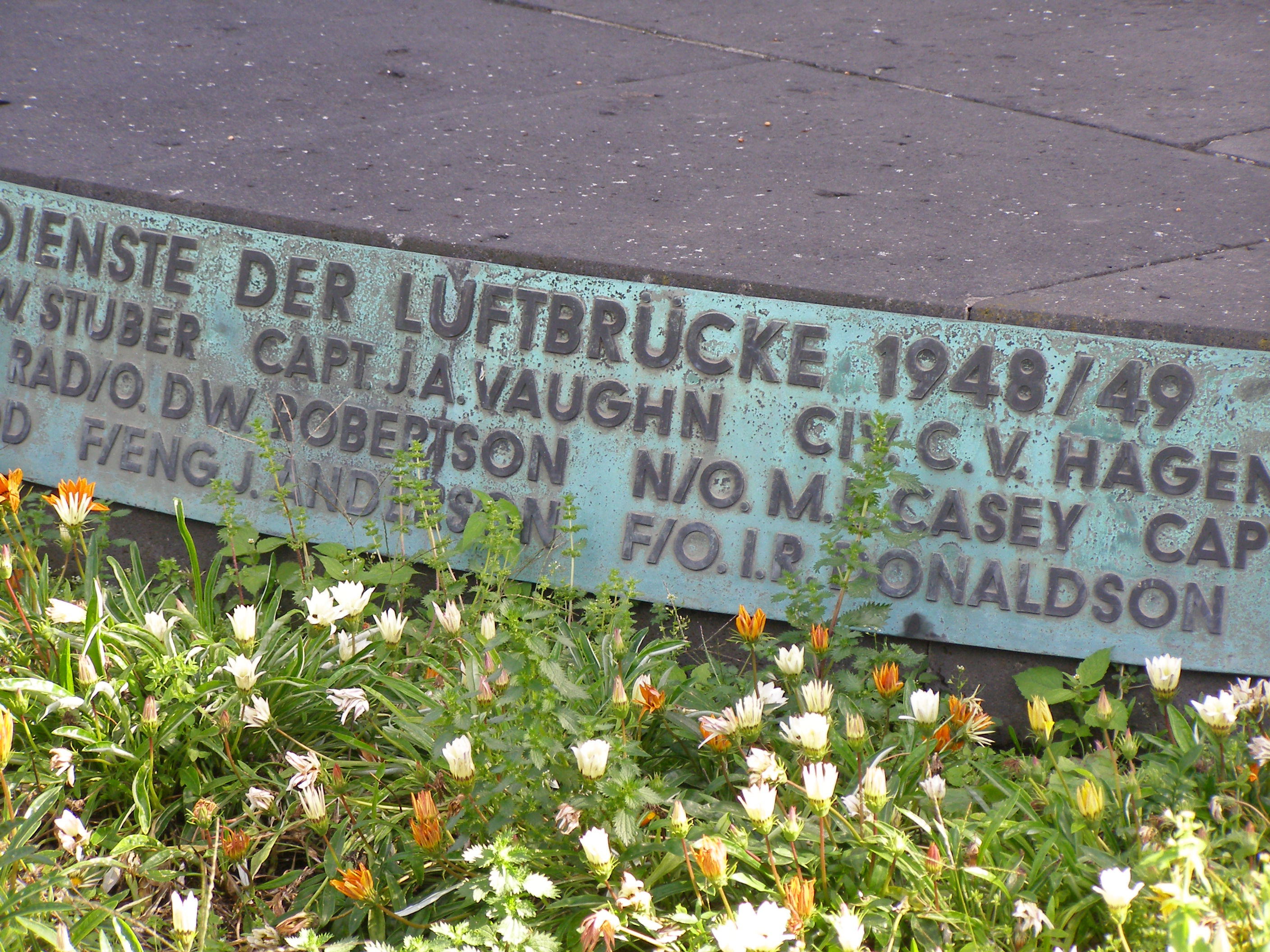 Airport / Flughafen / Letiště Berlin Tempelhof Inscripts on the memorial socket for the 78 people who dies 1948-49 / Inschriften auf dem Denkmalsockel für die 78 Toten von 1948-49 / Jména 78 obětí leteckého mostu na podstavci památníku